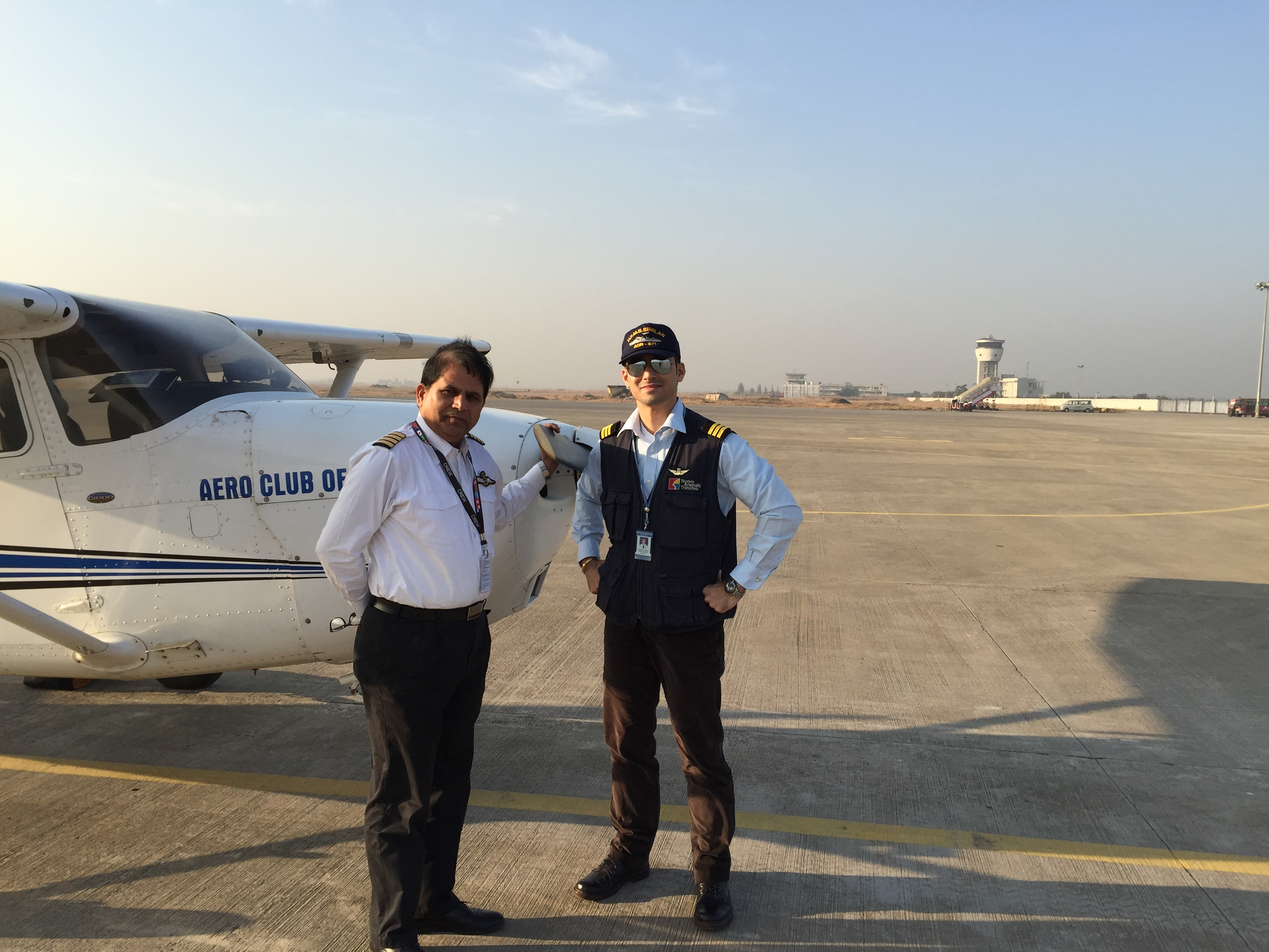 A Chief Flying Instructor, Capt. JP Sharma, and a Commercial Pilot, Capt. Samarth Singh at Surat Airport (Airport Designator: VASU) in different uniforms. Image shows one of the pilots in standard half blues with 4 bar epaulets and the other in a hobby pilot jacket displaying 3 bar epaulets. This also signifies the 4 bar pilot is a holder of an ATPL and the 3 bar pilot the holder of a CPL. Free to use this image as long as individuals featured are credited.